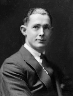 Arthur Porritt in 1923, the year he was awarded a Rhodes Scholarship. Image courtesy of the Alexander Turnbull Library, S P Andrew Ltd :Portrait negatives. Ref: 1/1-018584-F.